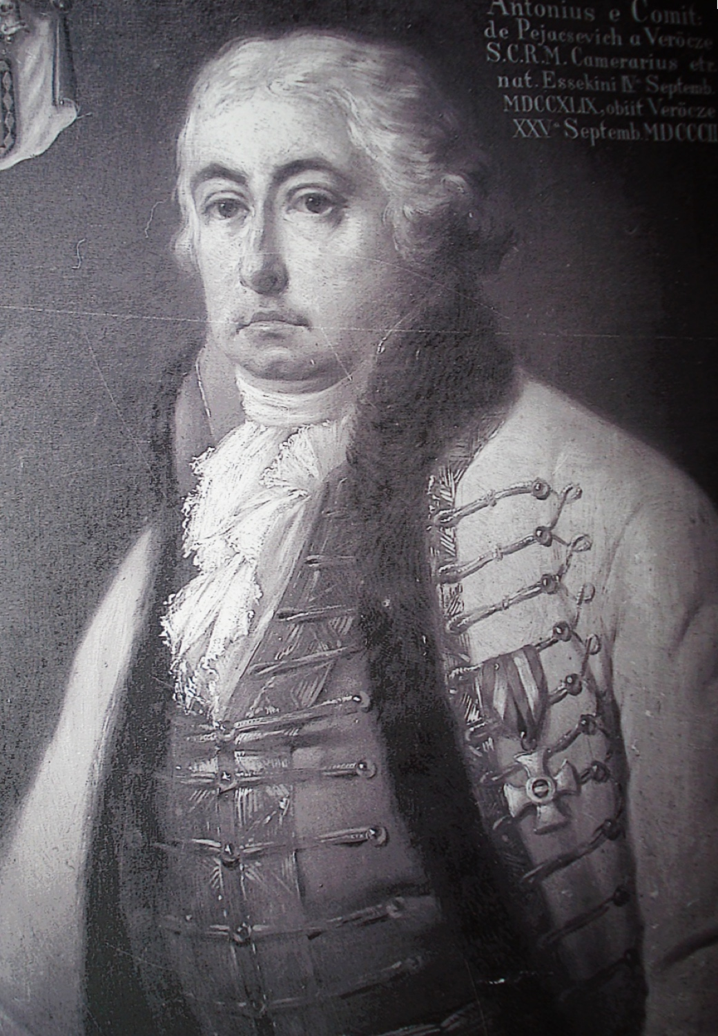 Portrait of the count Anthony Peyachevich (1749-1802)